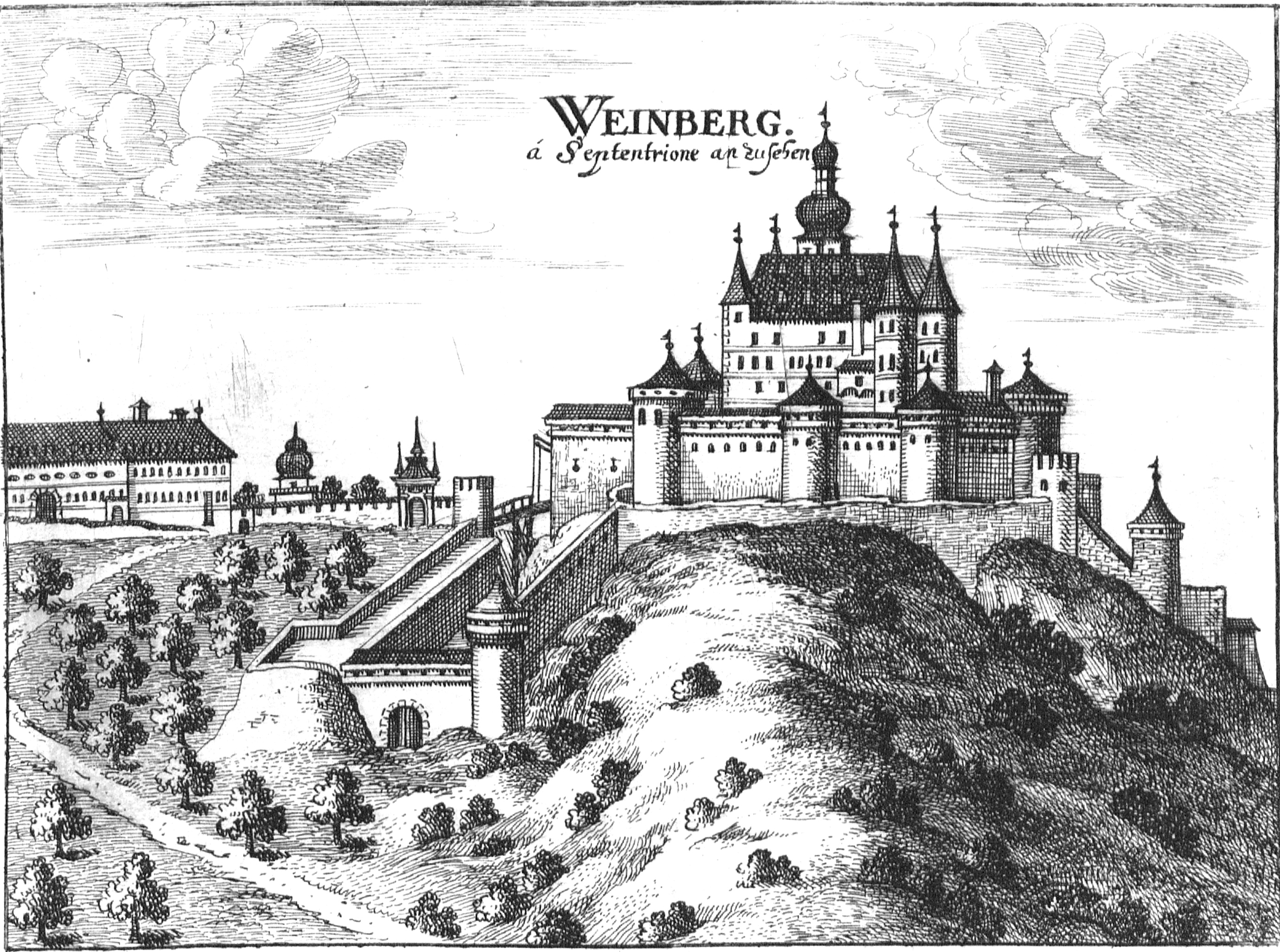 Castle Weinberg in Kefermarkt, northern side, Upper Austria, drawn by G. M. Vischer 1674.